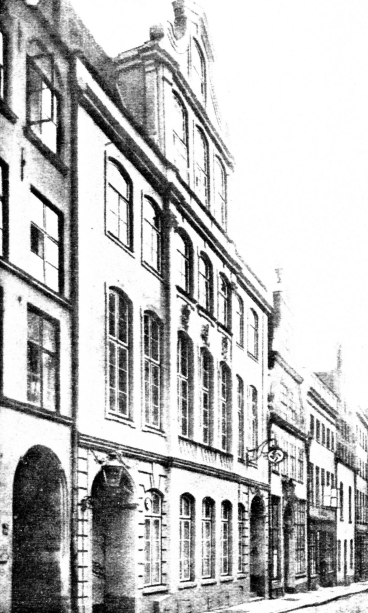 The 18th century house Fischstraße No. 7-9 in Lübeck, destroyed in 1942